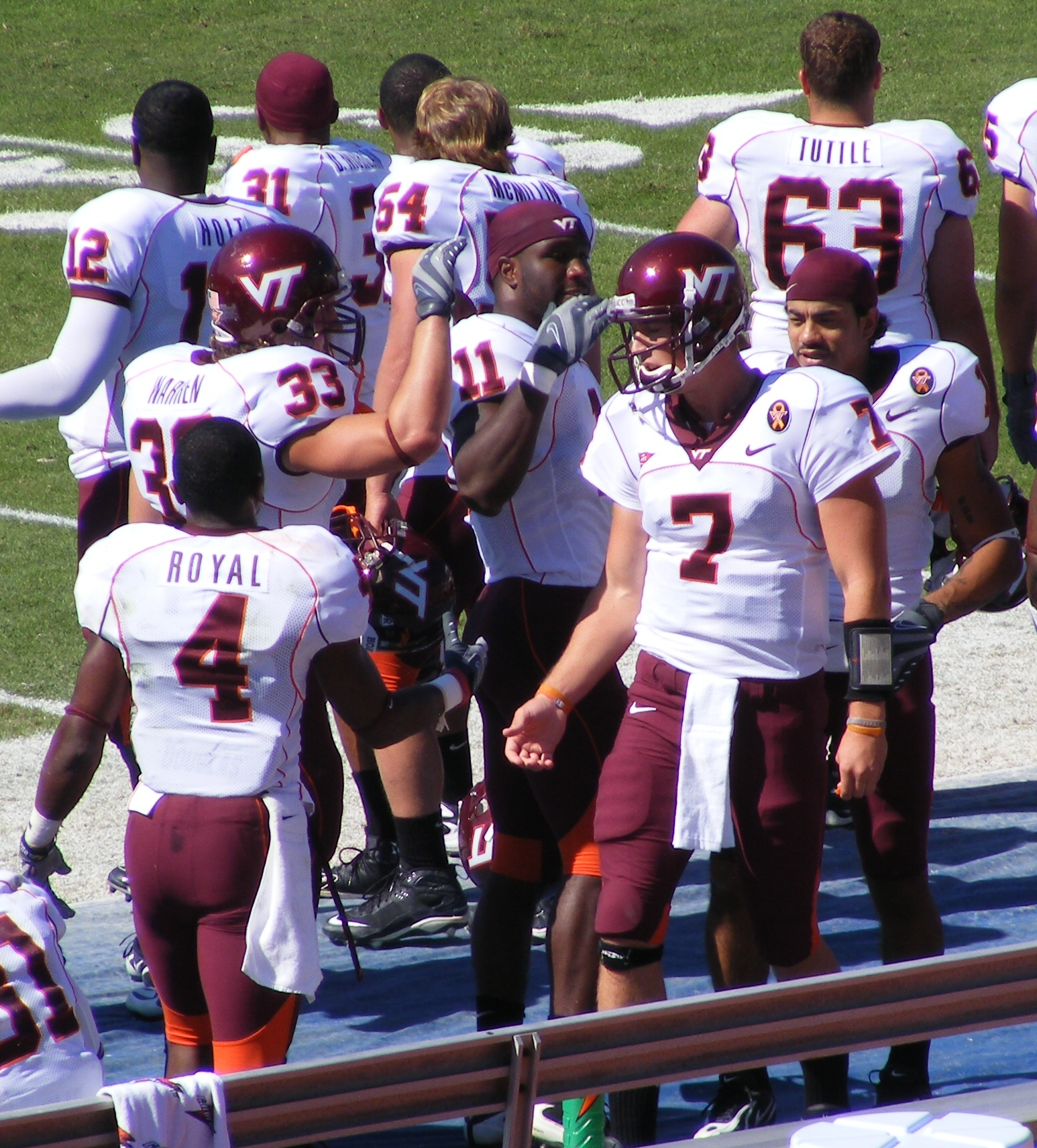 Sean Glennon (en) is congratulated by teammates after leading the 2007 Virginia Tech Hokies football team to a touchdown against the Duke University Blue Devils.